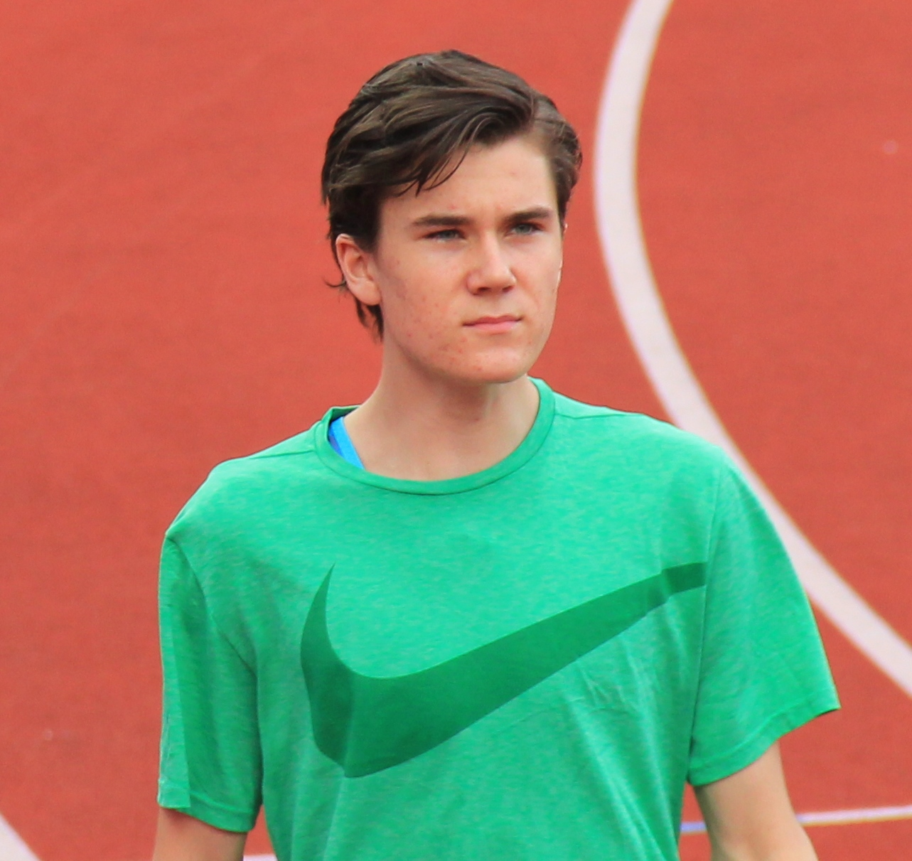 Jakob Ingebrigtsen at the 2017 Bislett Games